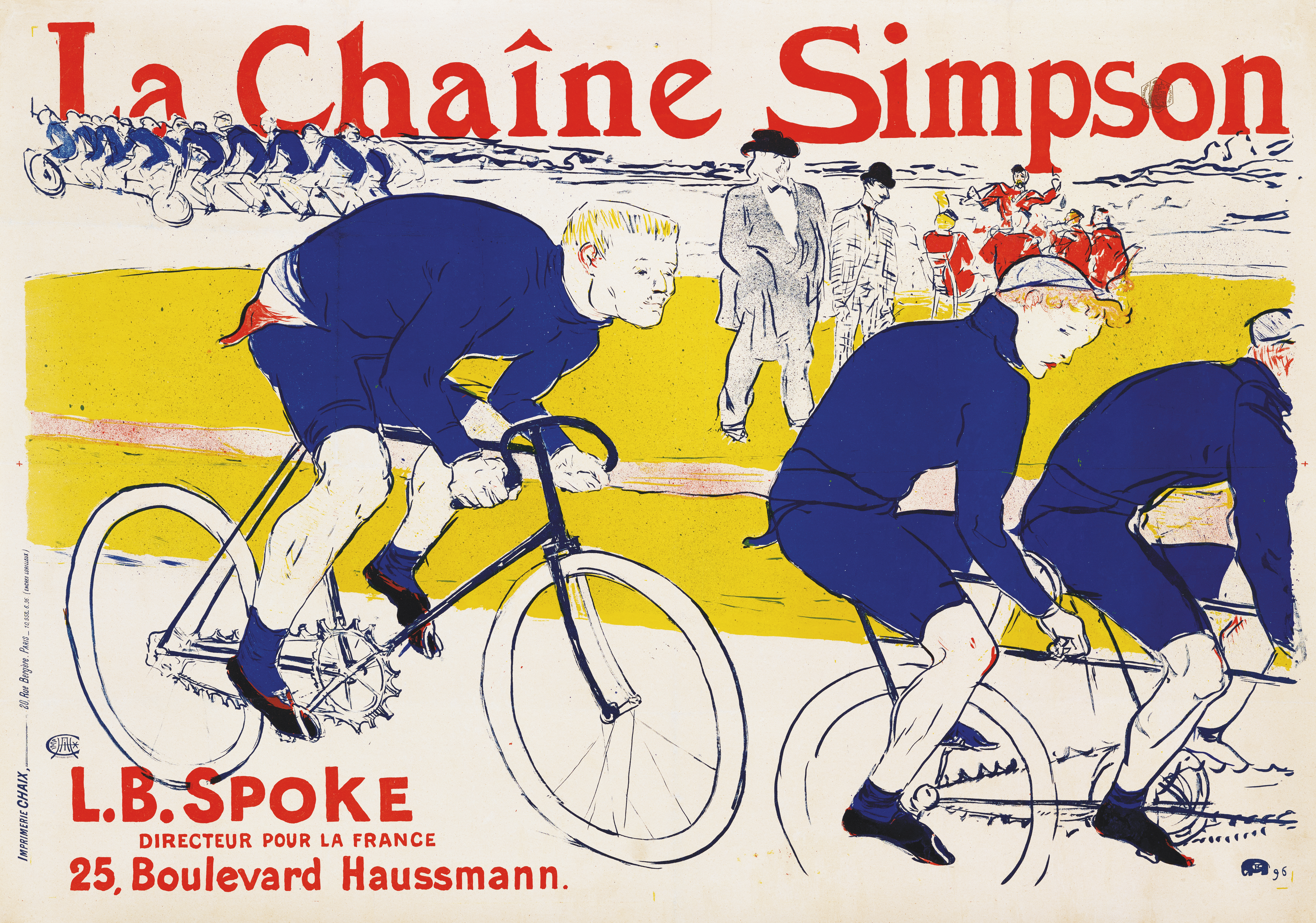 La Chaîne Simpson brush, crayon and spatter lithograph, printed in three colours. Key stone printed in blue, colour stones in red and yellow on wove paper 82.8 x 120 cm 1896